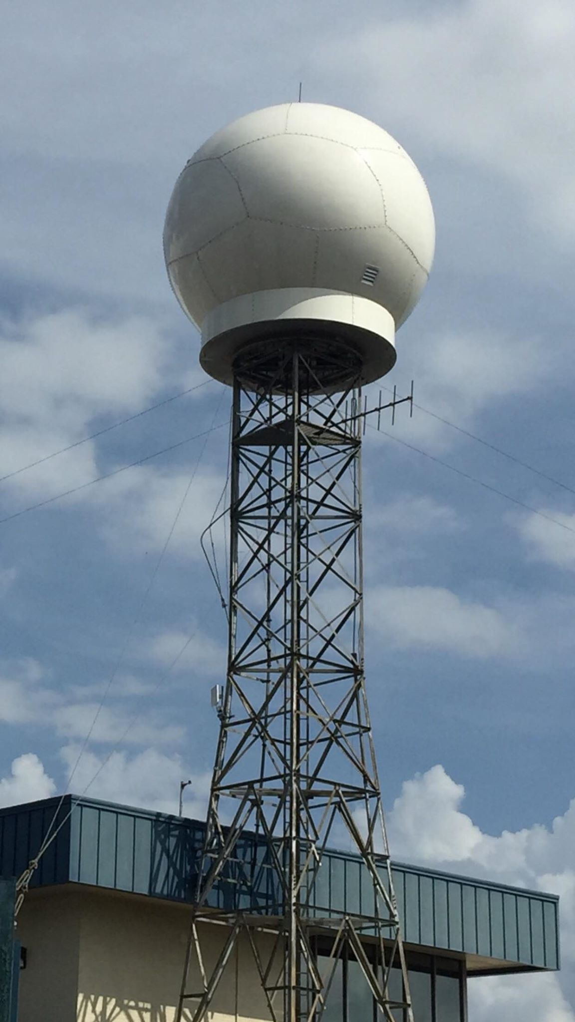 ARMOR (Advanced Radar for Meteorological and Operational Research) at Huntsville International Airport